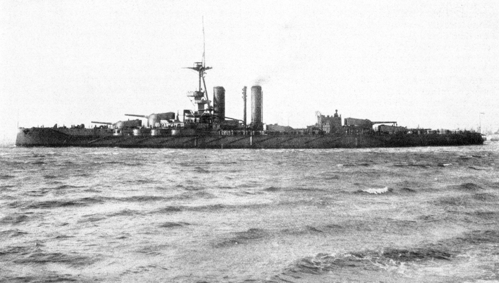 The British battleship HMS Iron Duke (launched 1912).